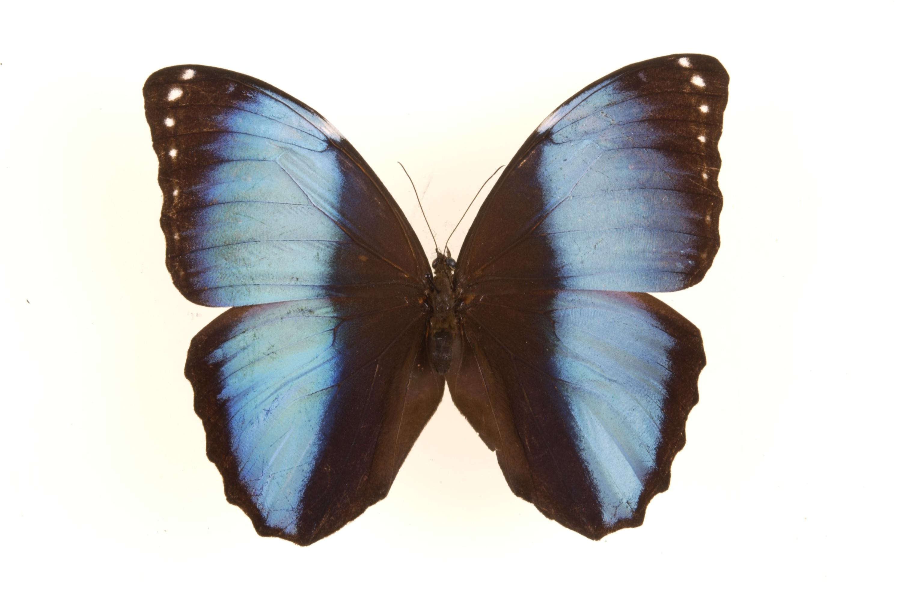 Morpho achilles patroclus var. carltoni